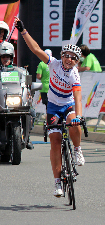 British cyclist Sharon Laws winning the 2012 Momentum 94.7 Cycle Challenge, becoming the first international woman to ever do so.